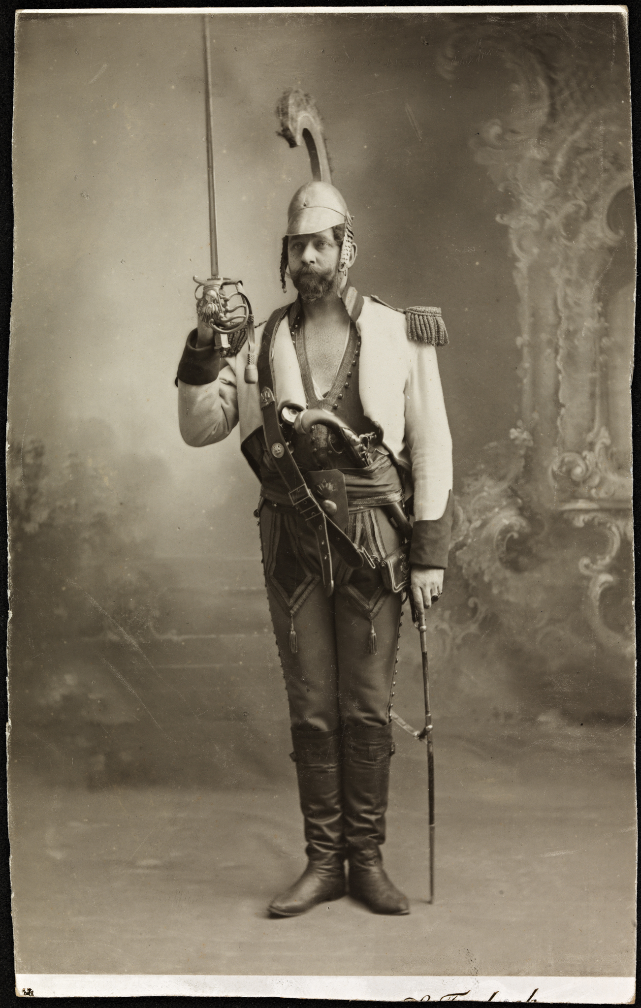 Tittel / Title: Portrett av skuespiller Ludvig Bergh (1865-1924). Rollebilde som Montedafiore i Jacques Offenbachs "Røverne".Beskrivelse / Description: Kabinettkort / Cabinet card. Dato / Date: ukjent / unknown Fotograf / Photographer: L. Forbech (Christiania) Ludvig Forbech (1865–1942) DescriptionNorwegian photographerDate of birth/death 2 March 1865 29 April 1942Location of birth Drammen, Norway Work periodbetween 1898 and 1921 date QS:P,+1500-00-00T00:00:00Z/6,P1319,+1898-00-00T00:00:00Z/9,P1326,+1921-00-00T00:00:00Z/9Work location Kristiania, Oslo NorwayAuthority control : Q20743595 KulturNav: df3bc970-4493-48b3-bbf7-9e9a59357c4b creator QS:P170,Q20743595 Eier / Owner Institution: Nasjonalbiblioteket / National Library of Norway National Library of Norway Native nameNasjonalbiblioteketLocationMo i Rana, NorwayCoordinates59° 54′ 50.56″ N, 10° 43′ 03.21″ E Established1811/1989Web page control : Q924551 VIAF: 169349351 ISNI: 0000 0001 2315 5505 LCCN: no00004978 NLA: 49862484 GND: 2165809-2 WorldCat institution QS:P195,Q924551 Bildesignatur / Image Number: blds_05785